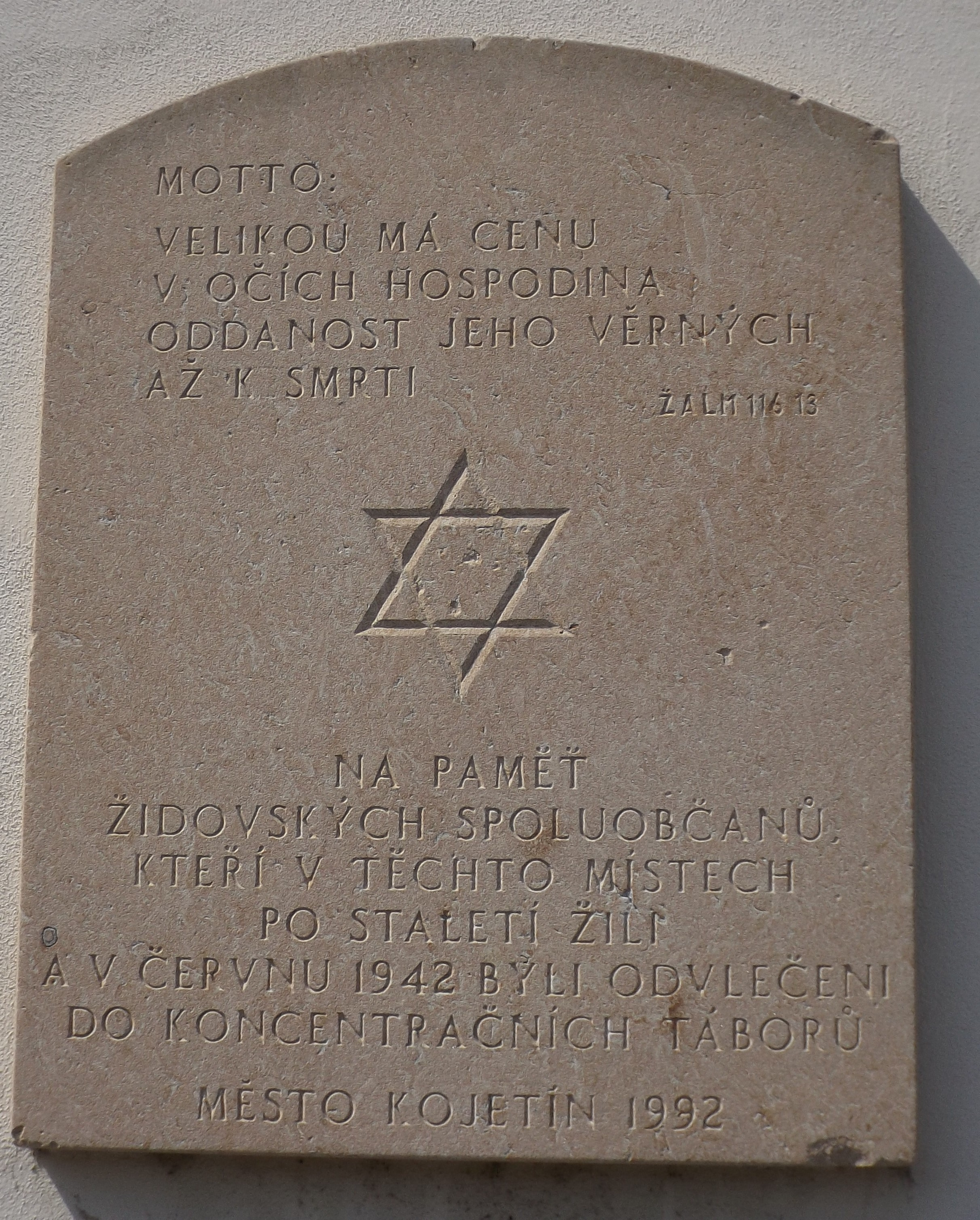 Synagogue Kojetín sign cropped